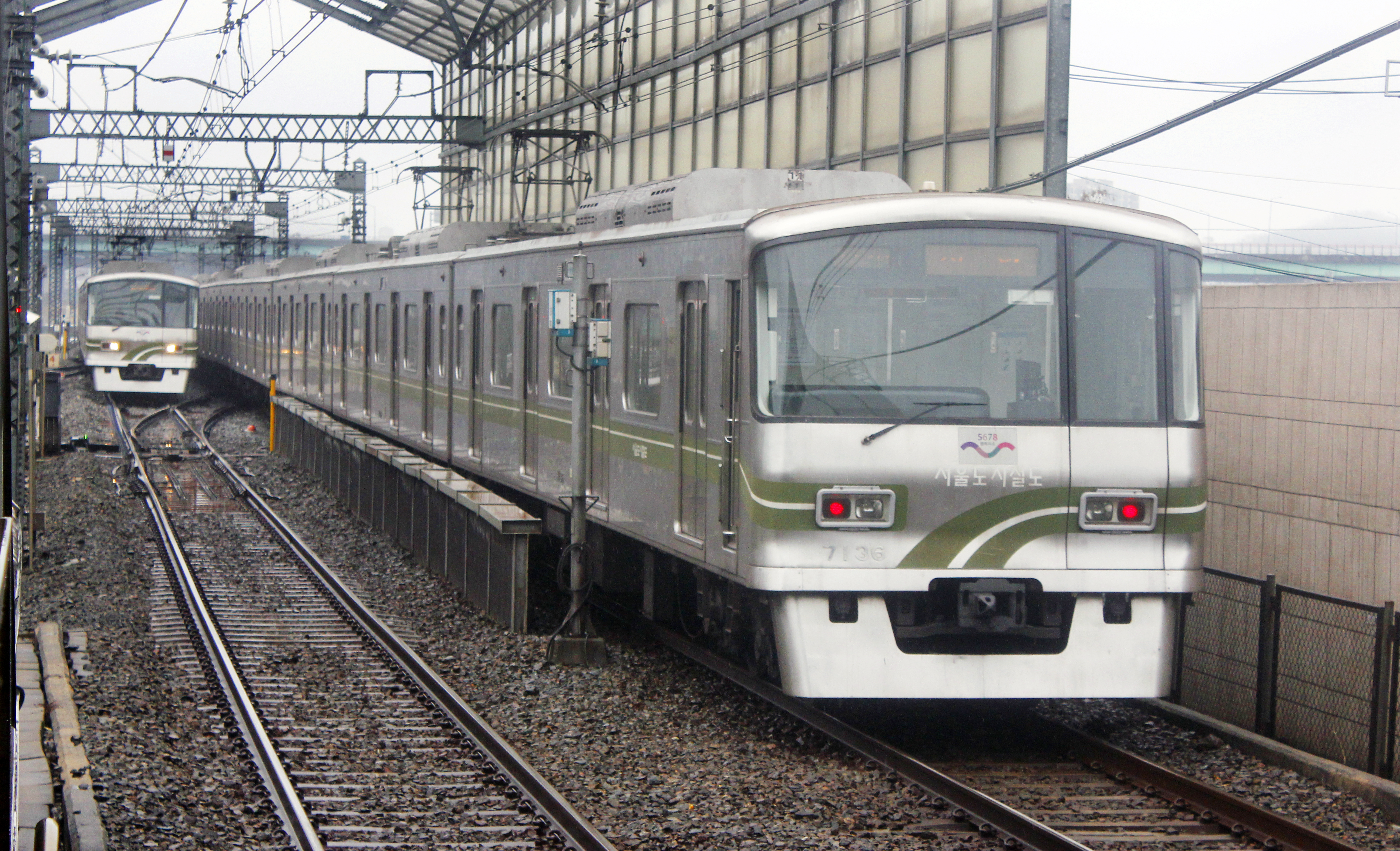 Seoul Metro class 7000